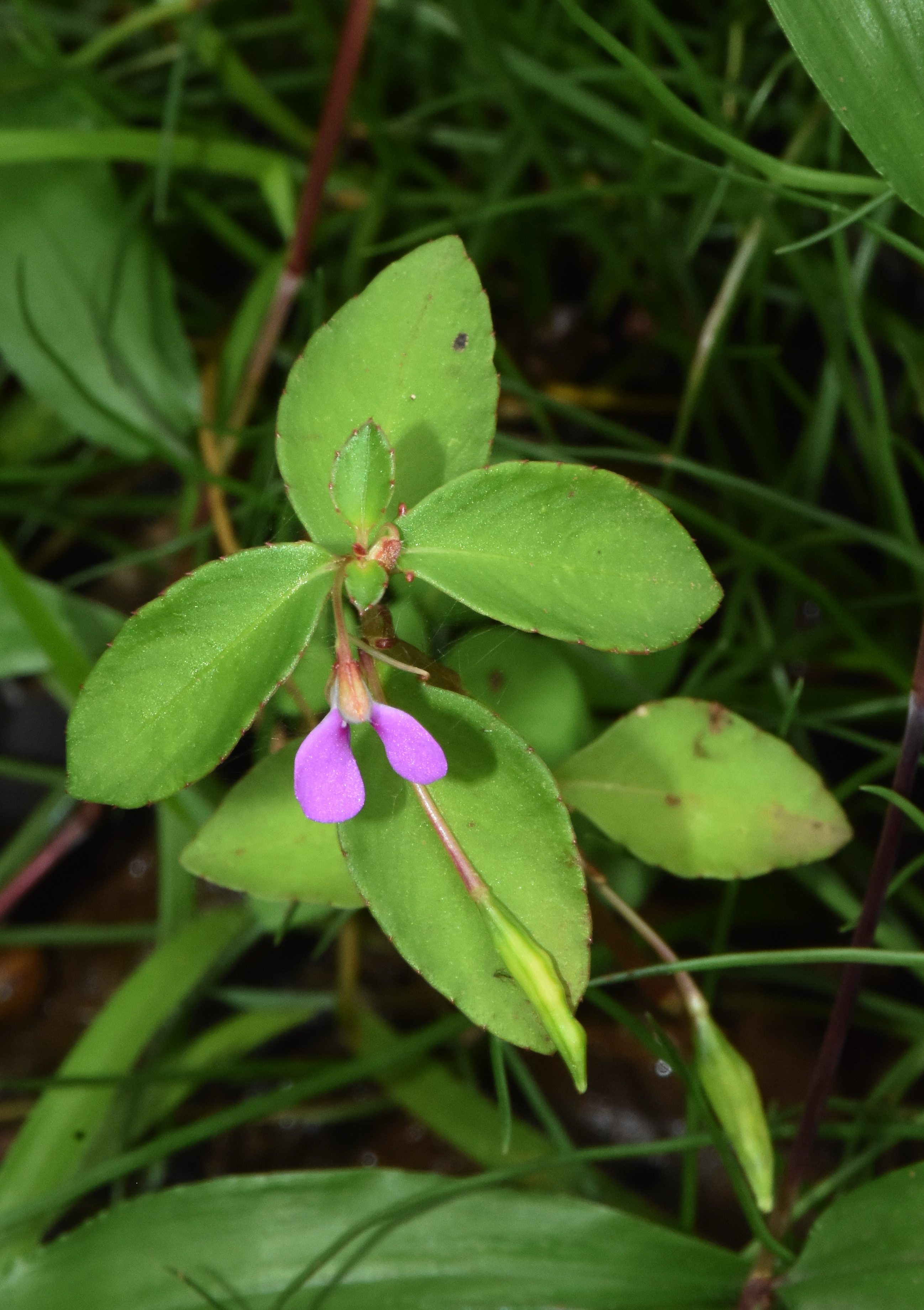 Impatiens minor at Neeliyarkottam.